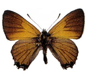 identifying features of Australian butterfly species wing pattern